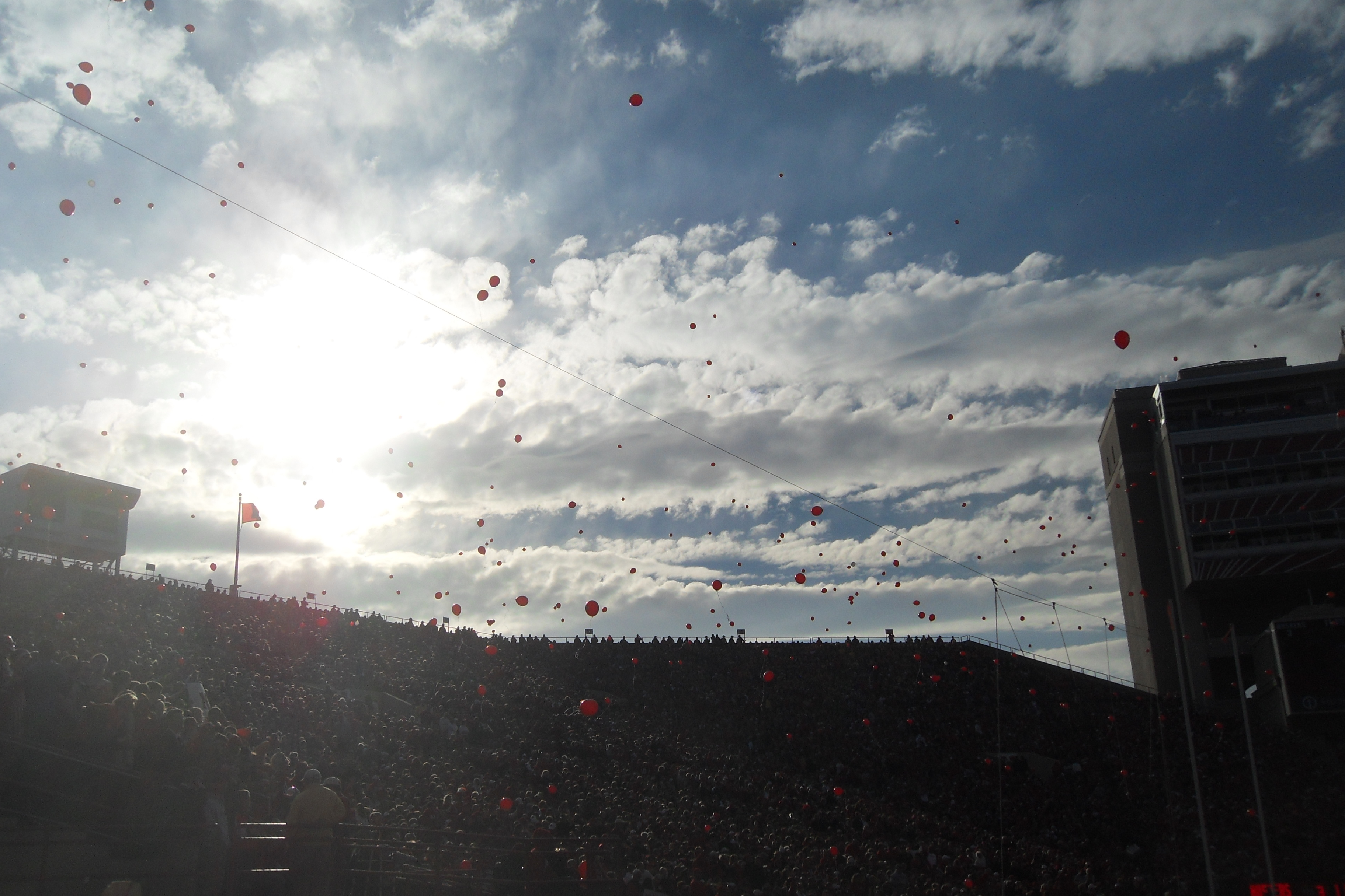 Husker fans releasing their balloons after the Nebraska Cornhuskers score their first touchdown of the game.